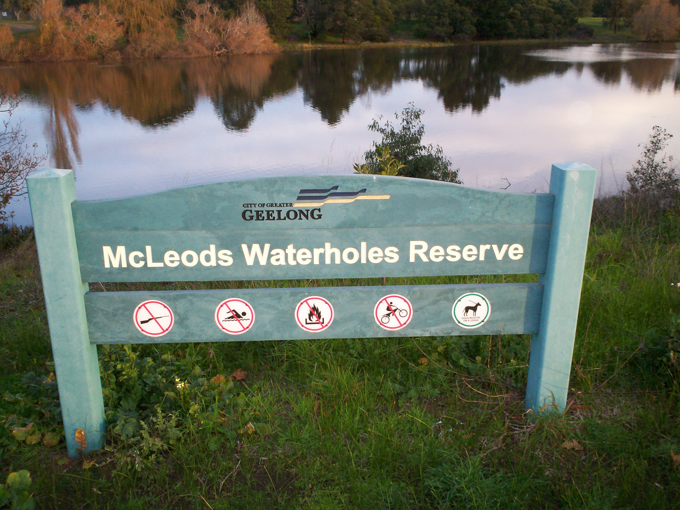 Taken by User:Michaelbeckham - 24/6/07